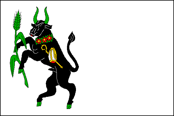 Municipal flag of Travčice village, Litoměřice District, Czech Republic.